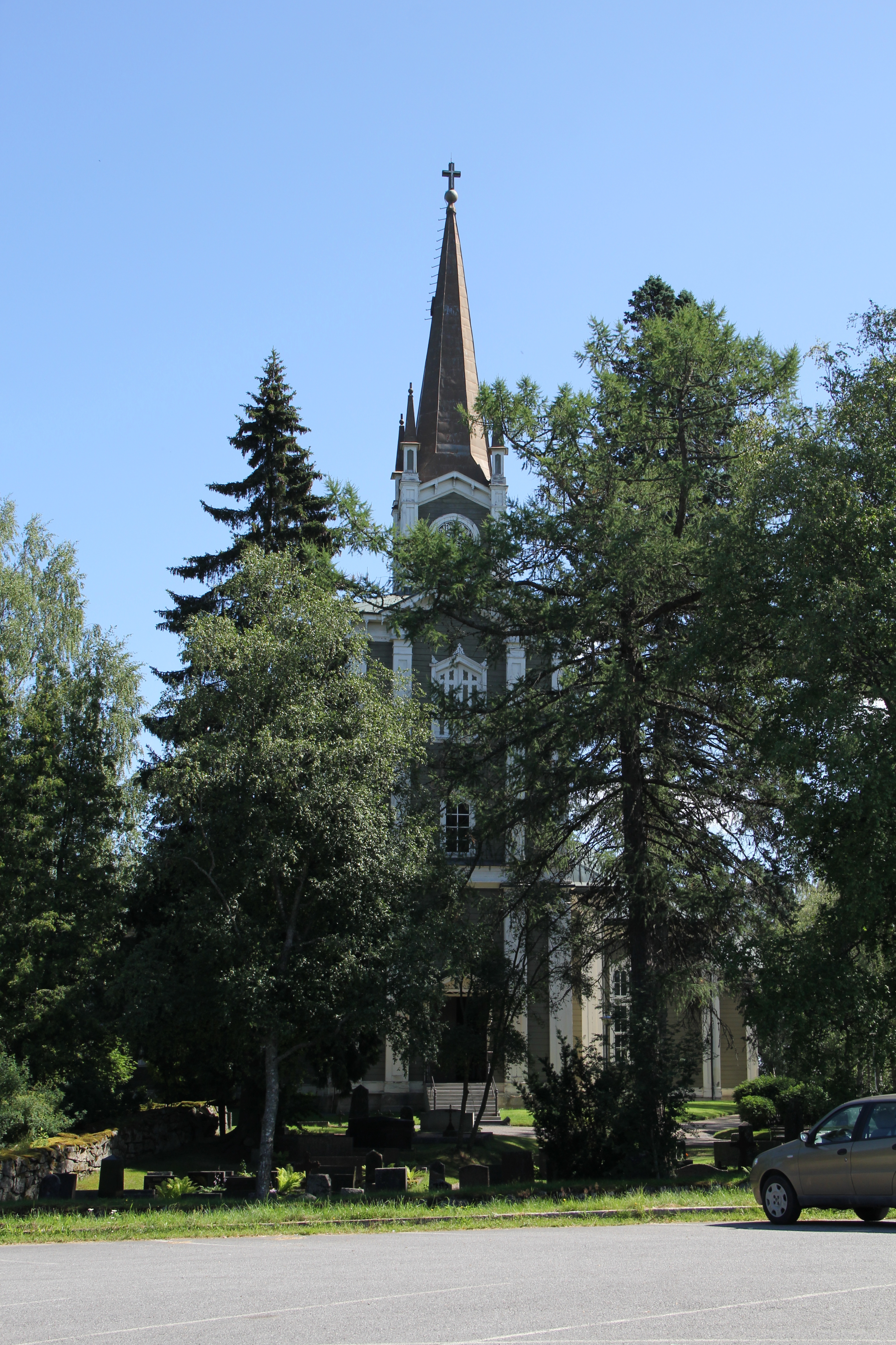 Urjala church, Urjala, Finland. Originally designed by Martti Tolpo, modifications in 1869 designed by architect Carl Albert Edelfelt. Completed in 1806. - Seen from west.